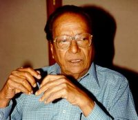 Photo of Hindi writer Kamleshwar (1932 - 2007), from U.S. Library of Congress South Asian Literary Recordings Project